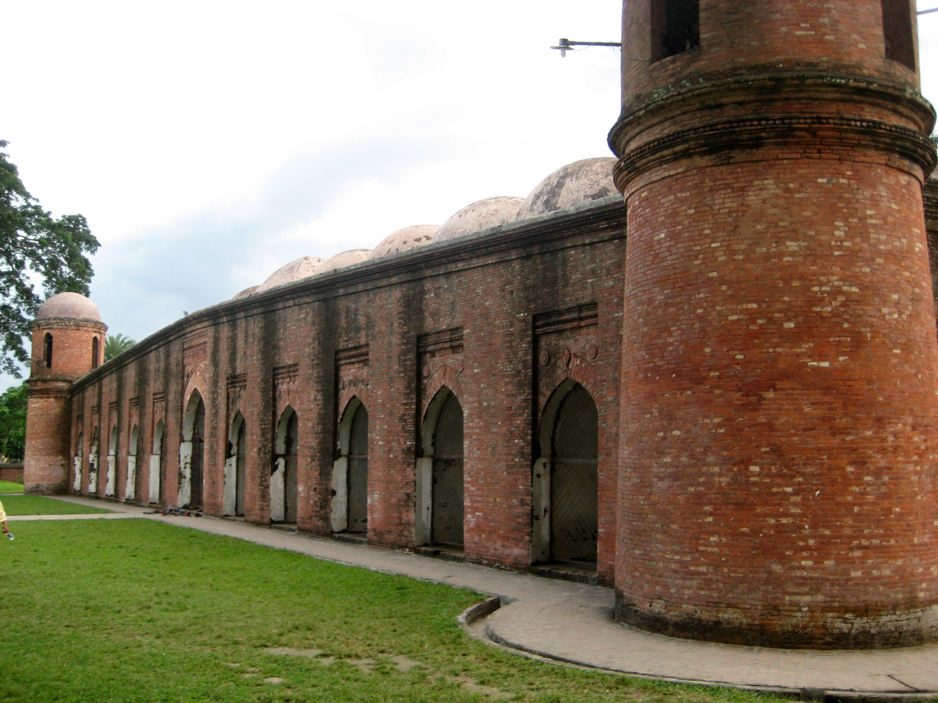 This historic city is located within Bagerhat District in south-west Bangladesh. It was founded by Turkish general Ulugh Khan Jahan in the early 15th century. It is an enormous Moghol architectural site covering a very large area (160 x 108) square feet. The mosque is unique in that, it has sixty pillars, which support eighty one (81) exquisitely curved domes that have worn away with the passage of time. The structure of the building also represents the 15th century Turki architectural view. It is anticipated that, before 1459 a greatest devotee of Islam named Khan Jahan Ali established this mosque. He was also the founder of Bagerhat district.